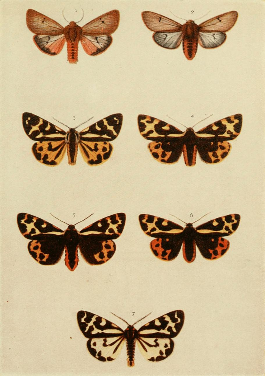 Plate 80. DescriptionBinomial in text1, 2. Ruby Tiger Moth.Phragmatobia fuliginosa3, 4, 5, 6, 7. Wood Tiger Moth.Parasemia plantaginis